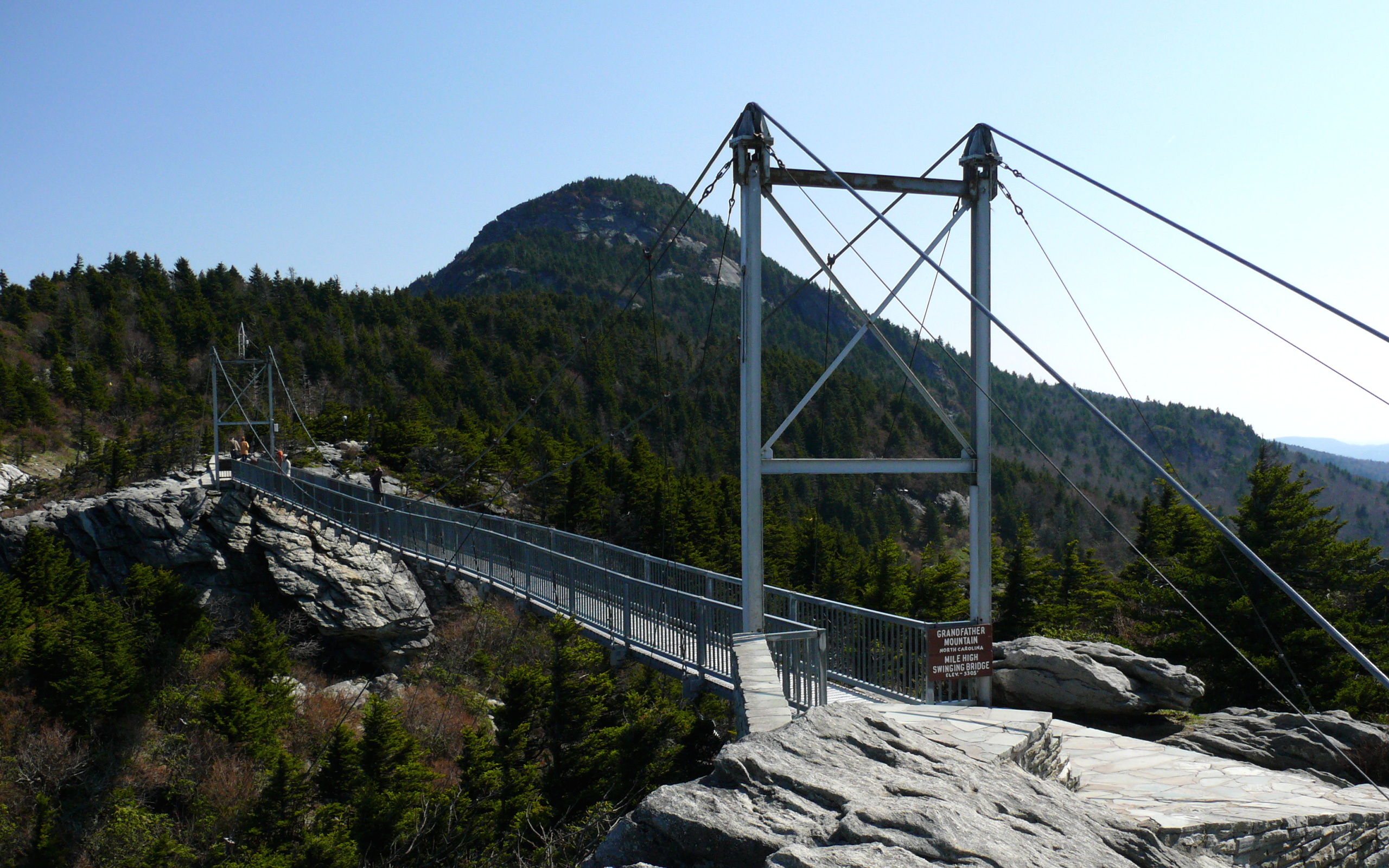 The Mile-High Swinging Bridge at Grandfather Mountain. Photo taken with a Panasonic Lumix DMC-FZ50 in Avery County, NC, USA.